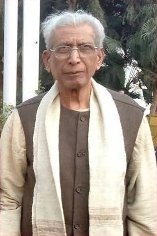 Namwar Singh